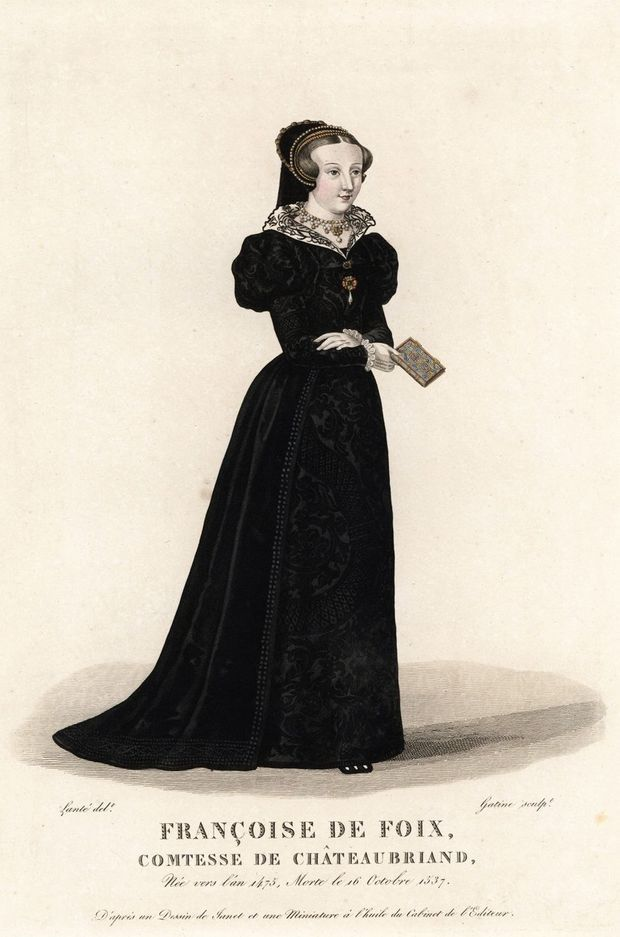 Engraved of Françoise de Foix.